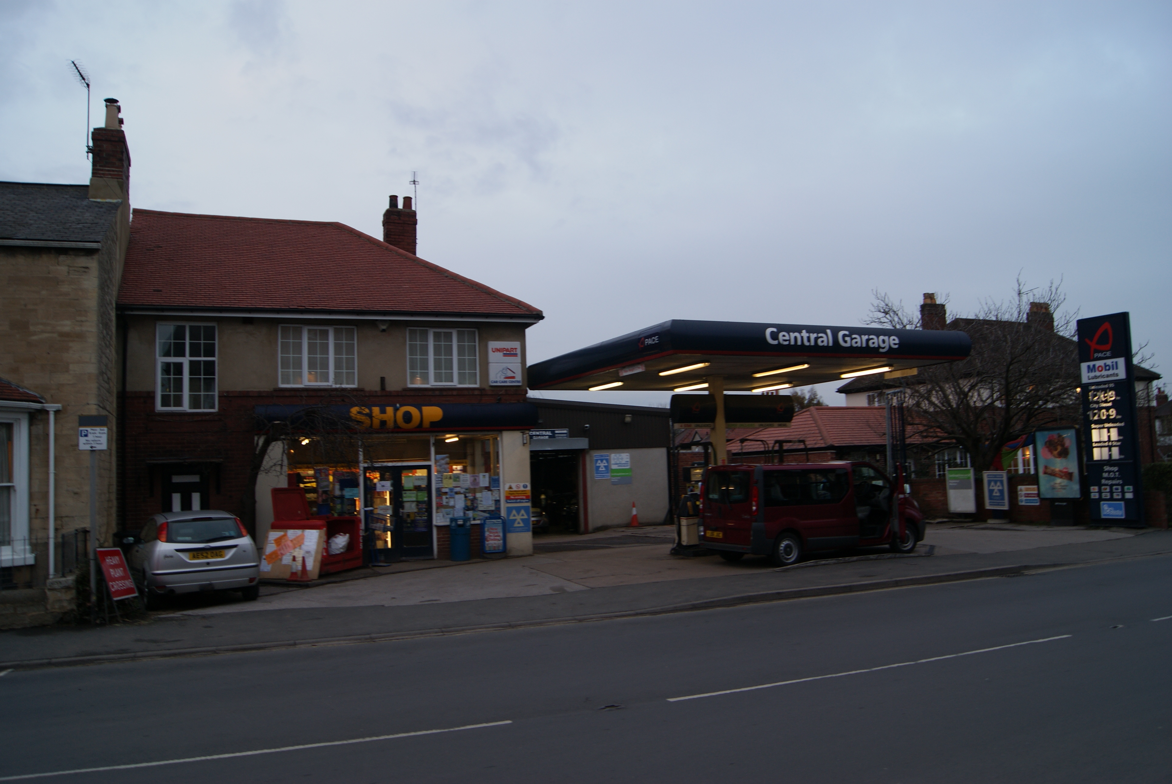 Central Garage, High Street, Boston Spa, West Yorkshire. This small independent garage is a franchise of Pace Petroleum (Kuwait Petroleum International). Taken from over the road (outside The Crown Hotel) on the evening of Wednesday the 24th of March 2010.